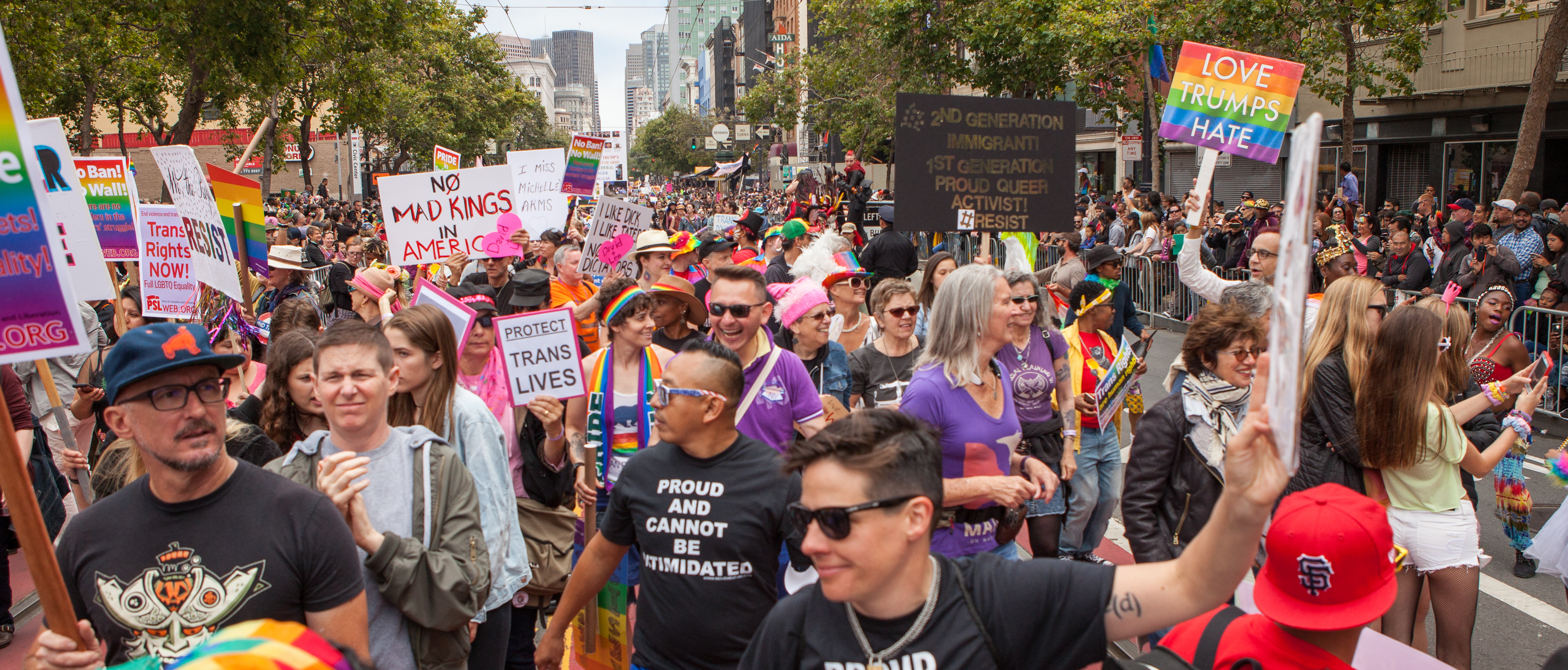 Marchers in the Resistance contingent of the 2017 San Francisco Pride Parade hold various signs.